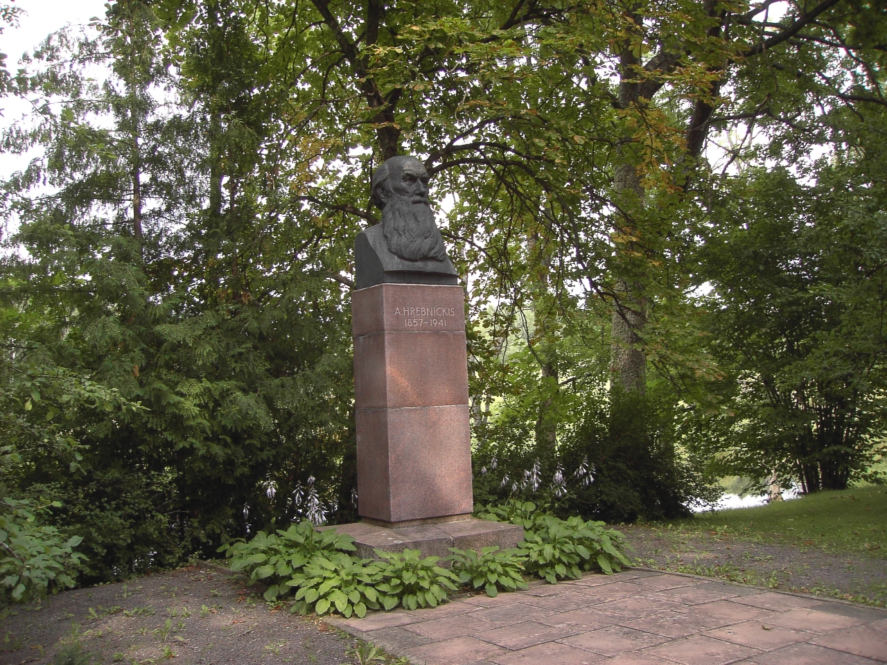 Monument to Adomas Hrebnickis (Adam Hrebnicki) in village Rojus, Ignalina district, Lithuania